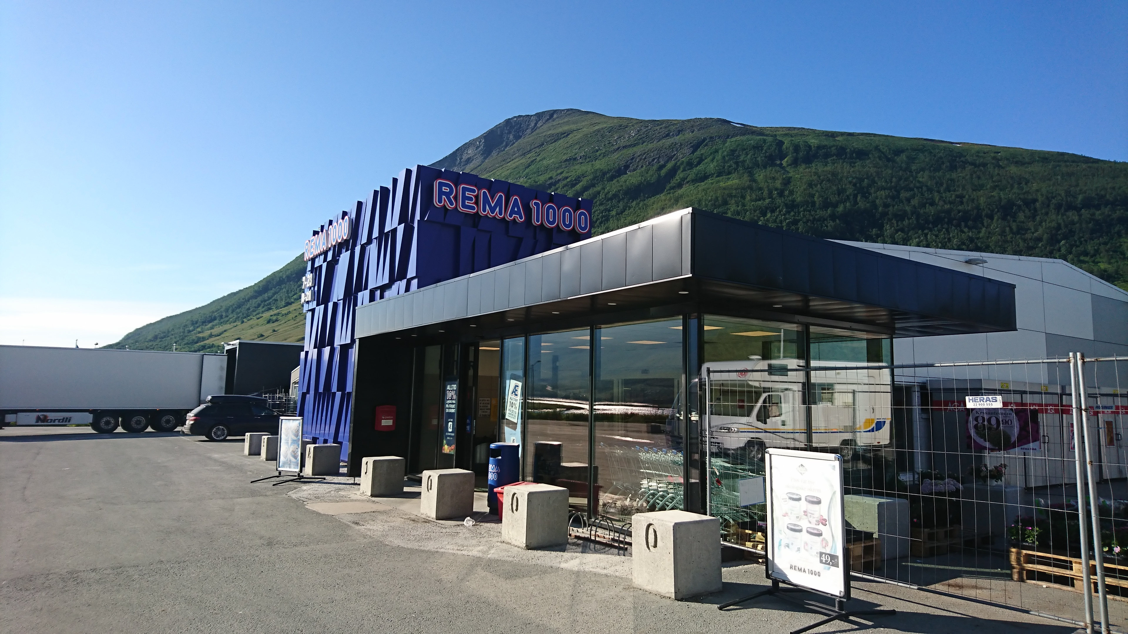 A REMA 1000 store in Nordkjosbotn.